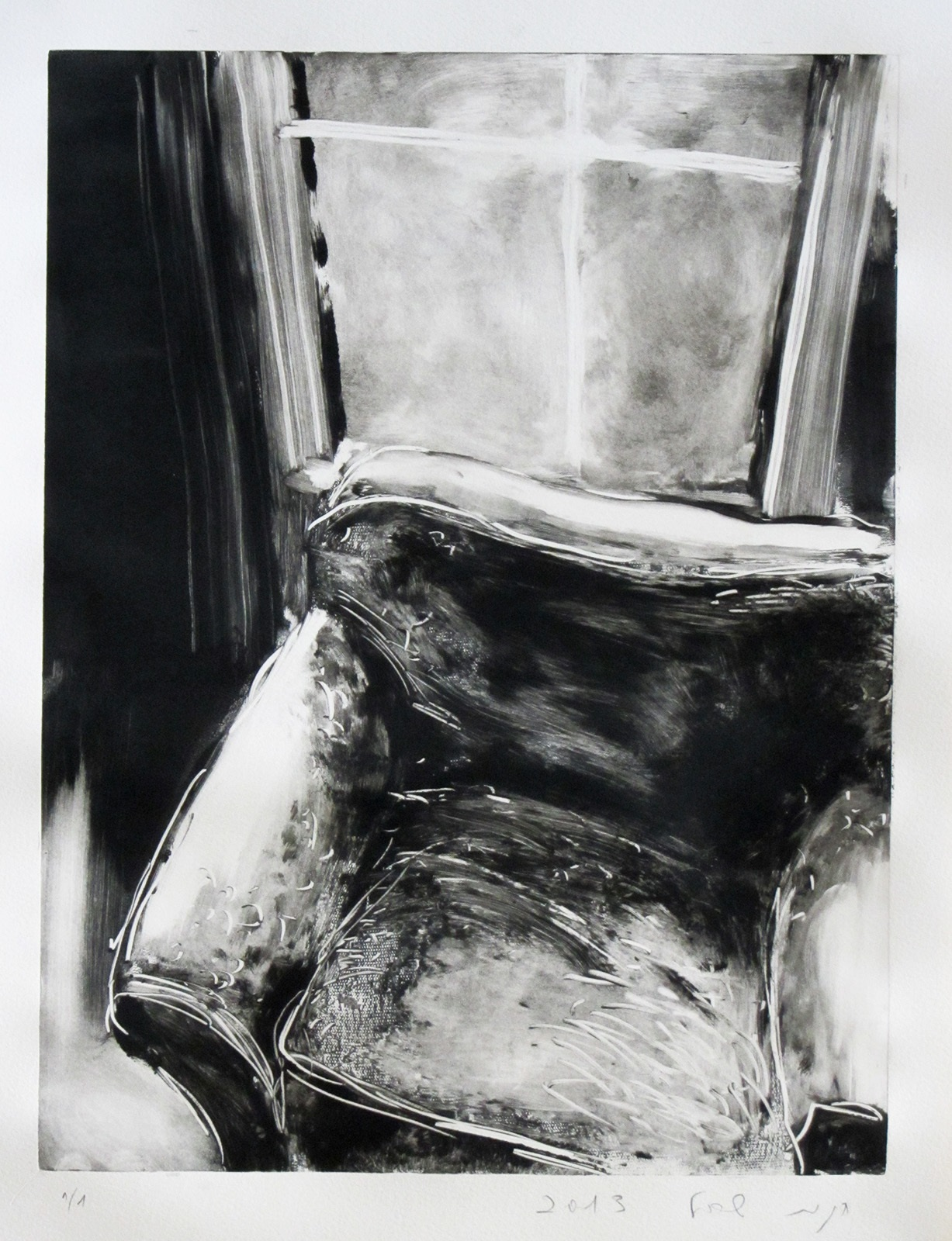 Chair near Window by Hagit Shahal